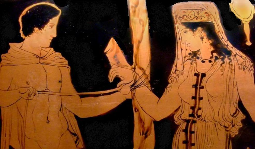 Ancient Greek Vase scene, from Apulia. red-figured volute-krater, ca. 4th century BC. From (South Italy).